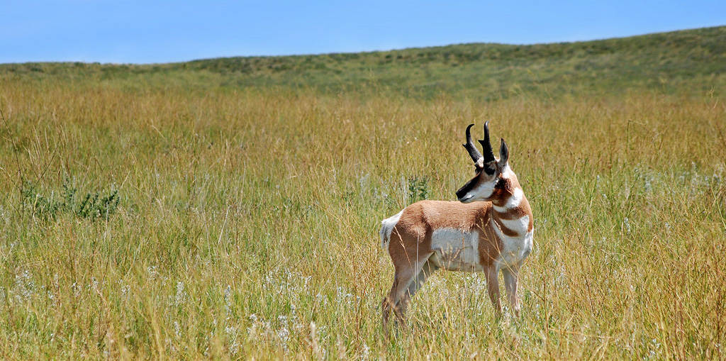 Antilocapra Americana - Custer State Park, SD. USA.